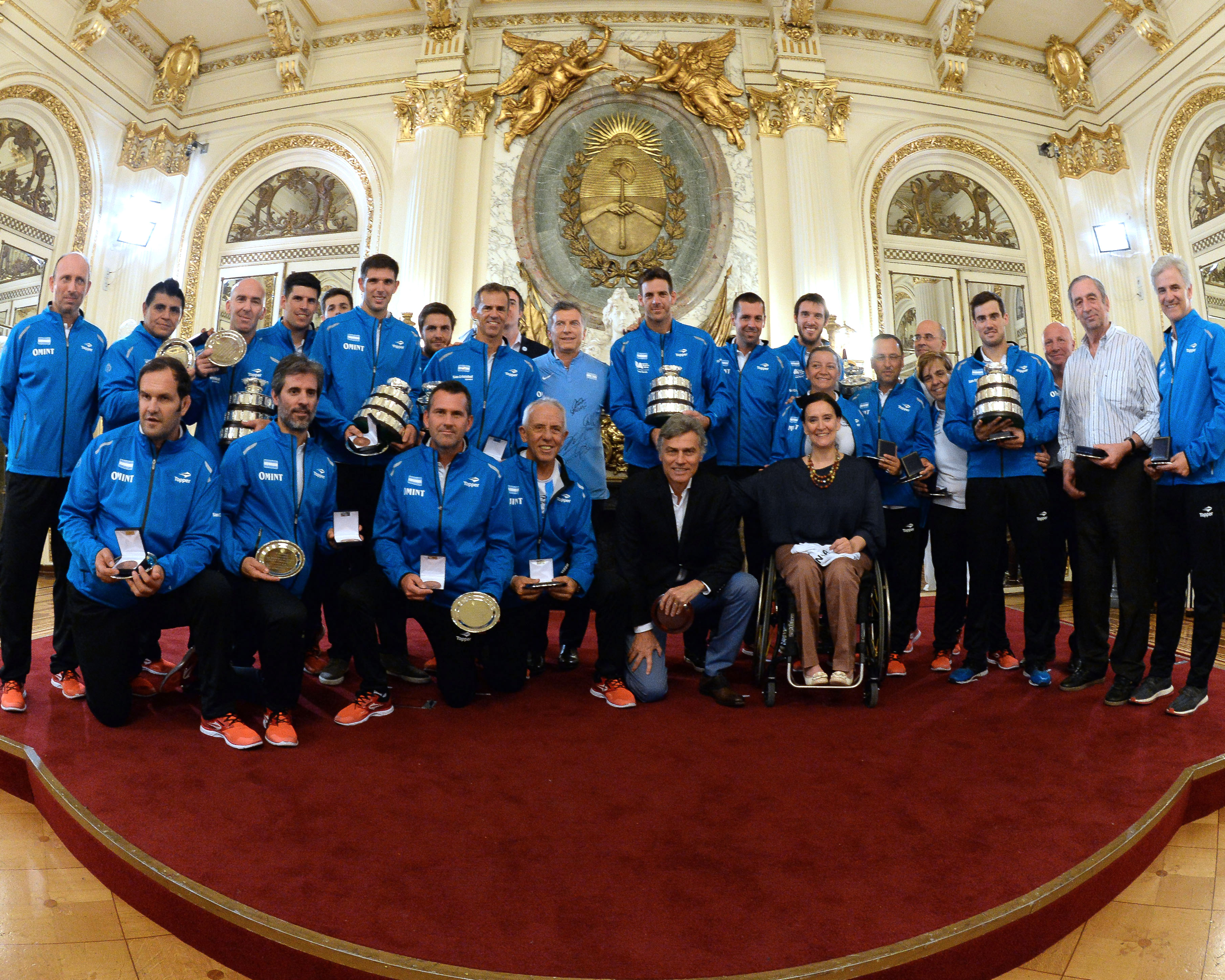 The Argentina Davis Cup team during their visit to Casa Rosada, where they were hosted by President of Argentina, Mauricio Macri.